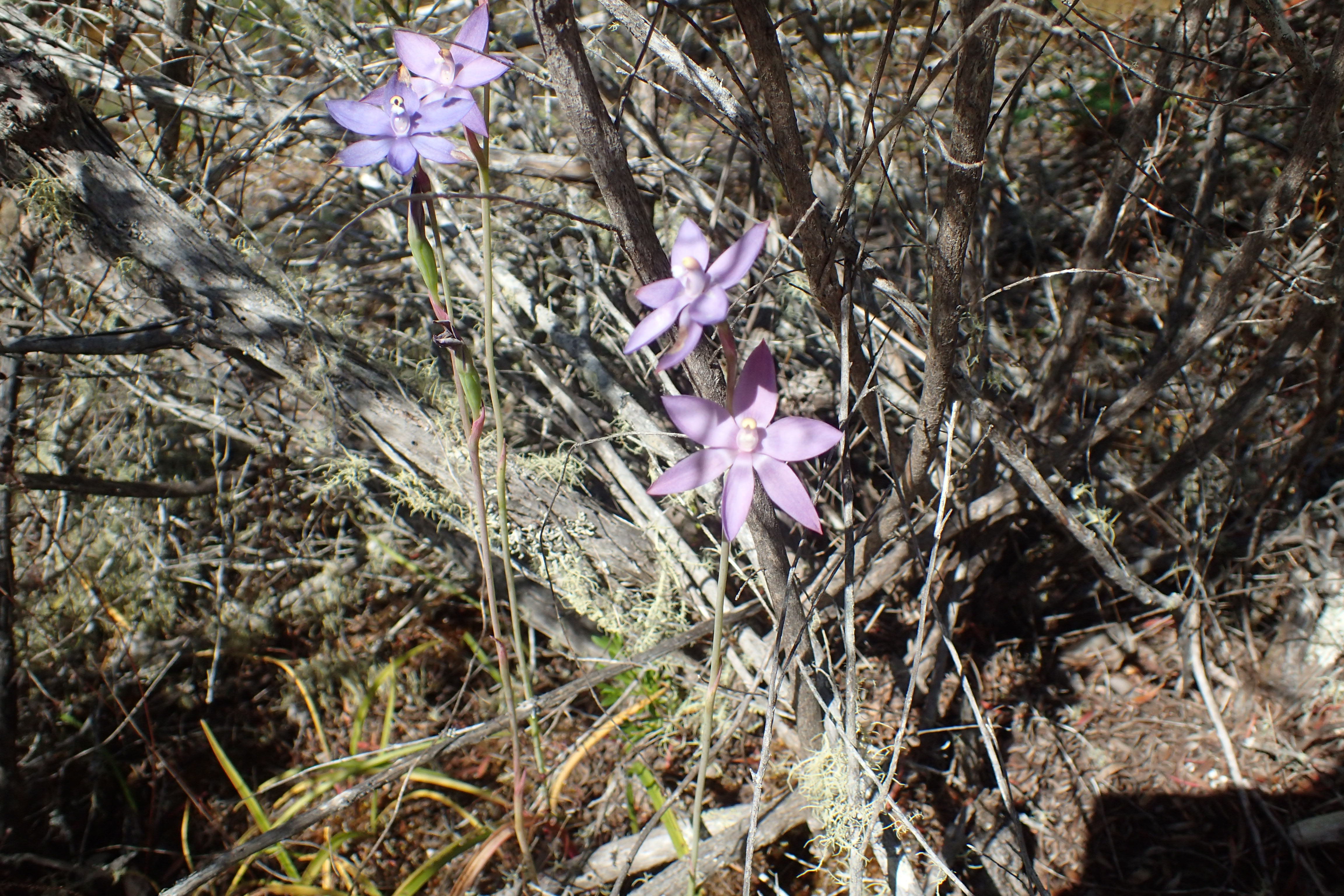 Thelymitra granitora growing on a granite outcrop along the South West Highway, 1.5 km south of the Middleton Road turnoff